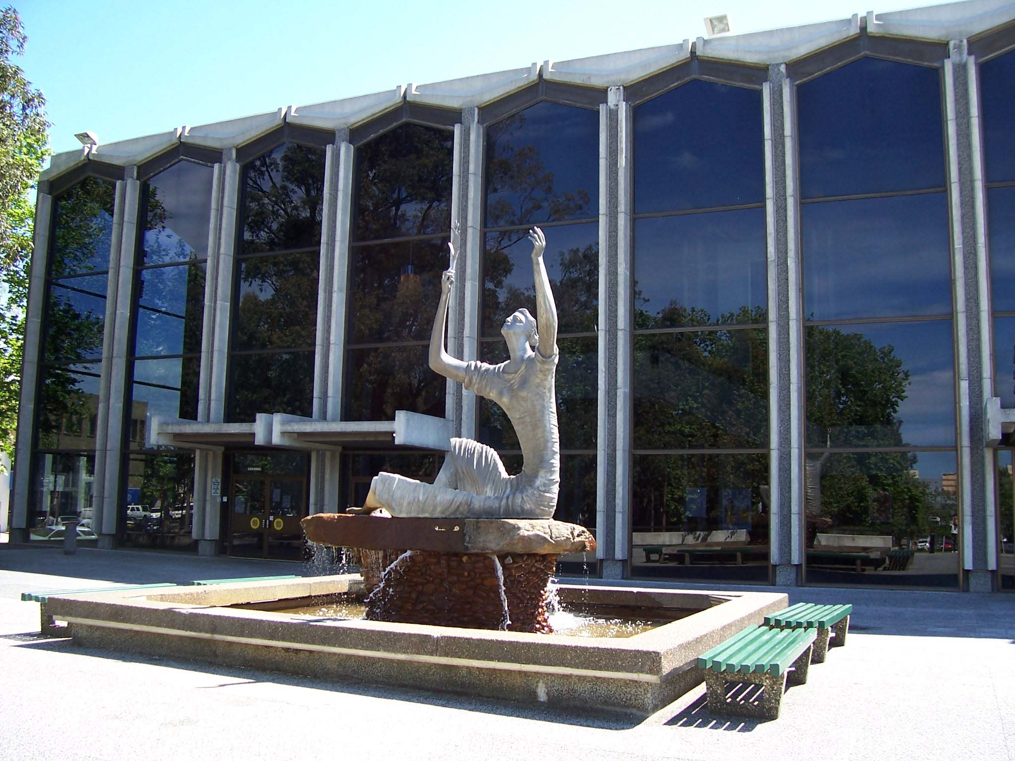 Personal image - Statue outside townhall, also a fountain - Local Sydney Architecture